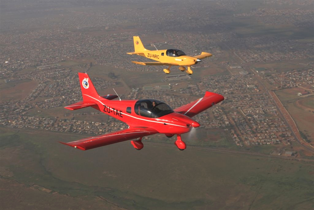 photograph of a pair of Sling 2 planes in the air, registrations ZU-TAE (red, foreground) and ZU-NRC (yellow, further away)